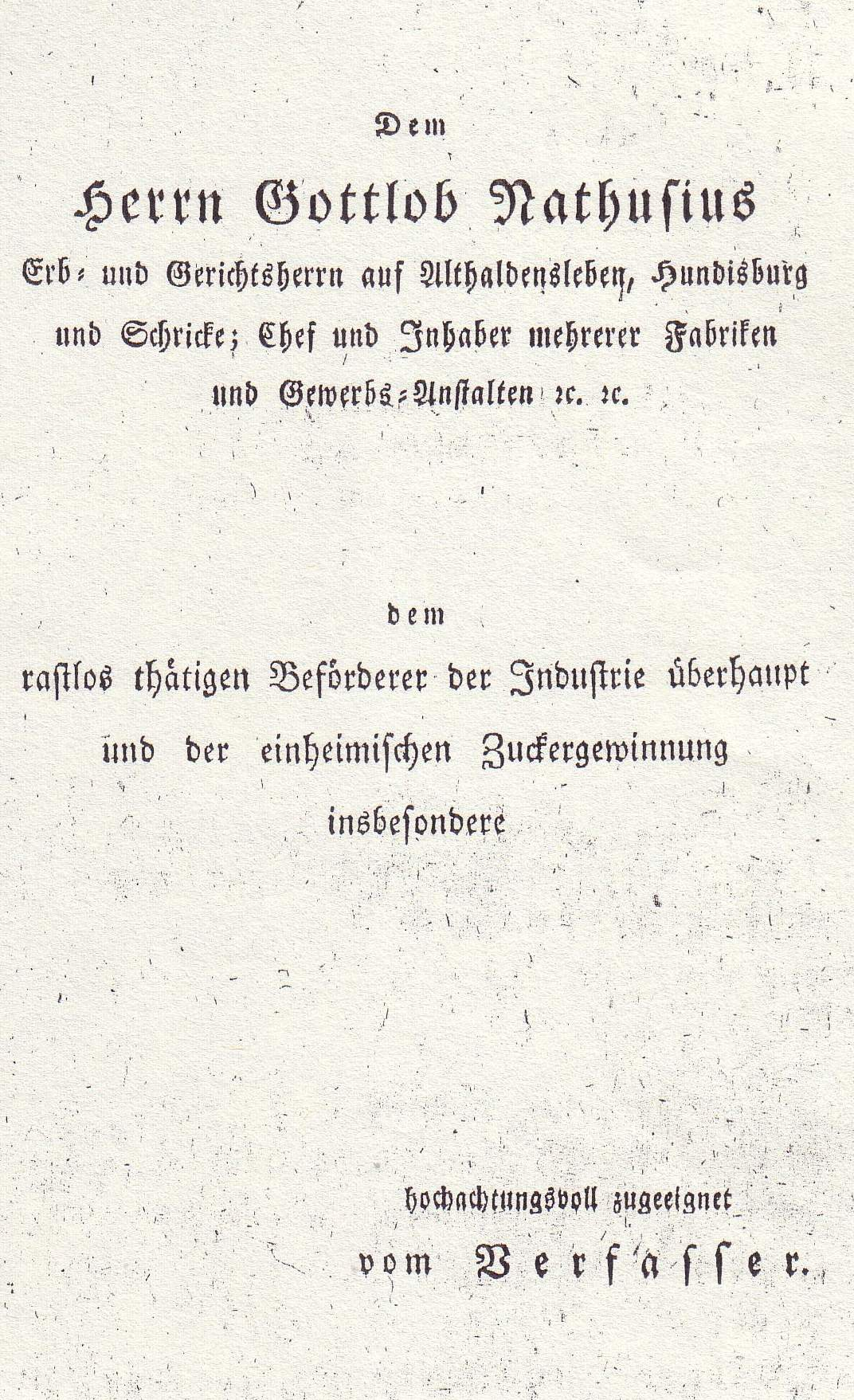 second page in book: Ueber den gegenwärtigen Zustand der Zuckerfabrikation in Deutschland ..